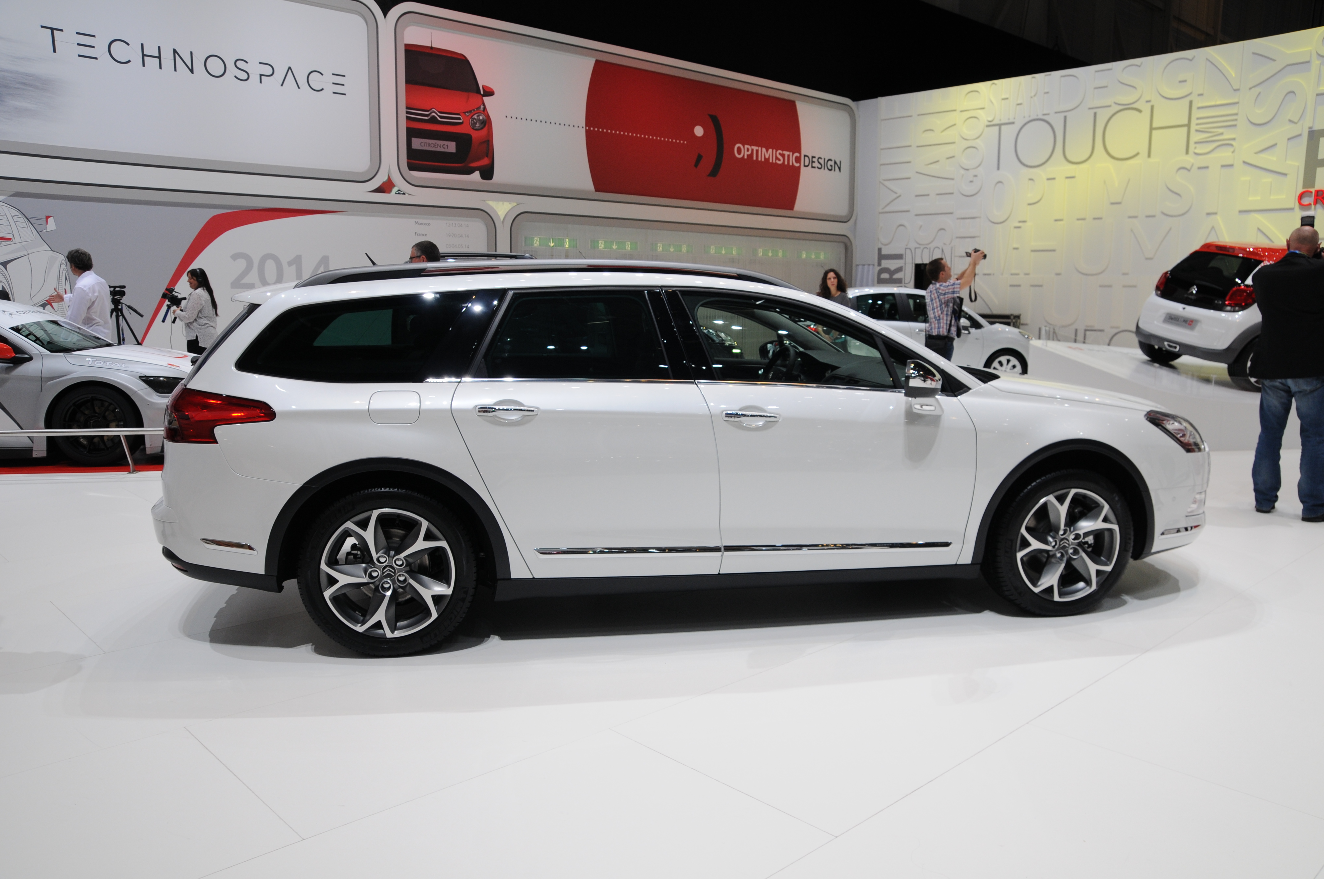 Geneva Motor Show 2014 (photo taken on the first press day)